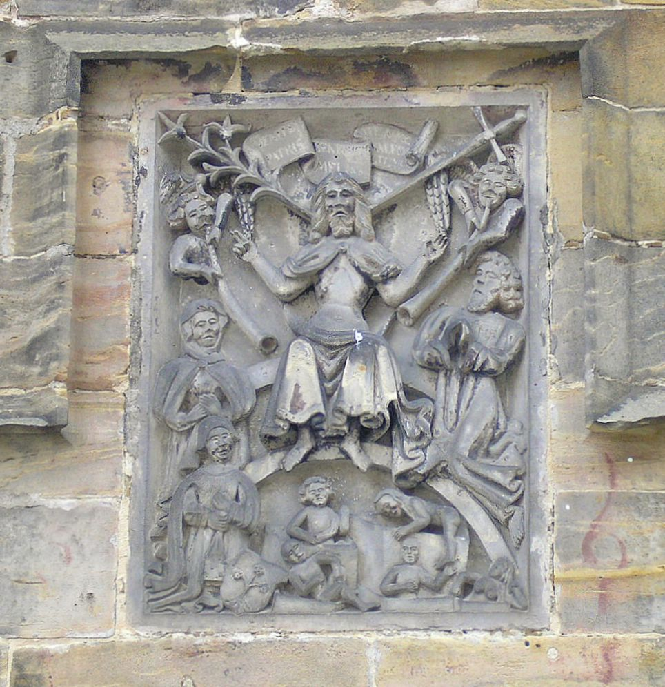 Ebern (Landkreis Haßberge, Lower Franconia, Germany). "Last Judgment" at the late gothic "Karner" (Ossuary) of the former cemetery